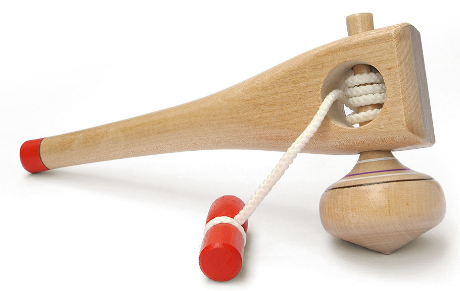 Top with cord.